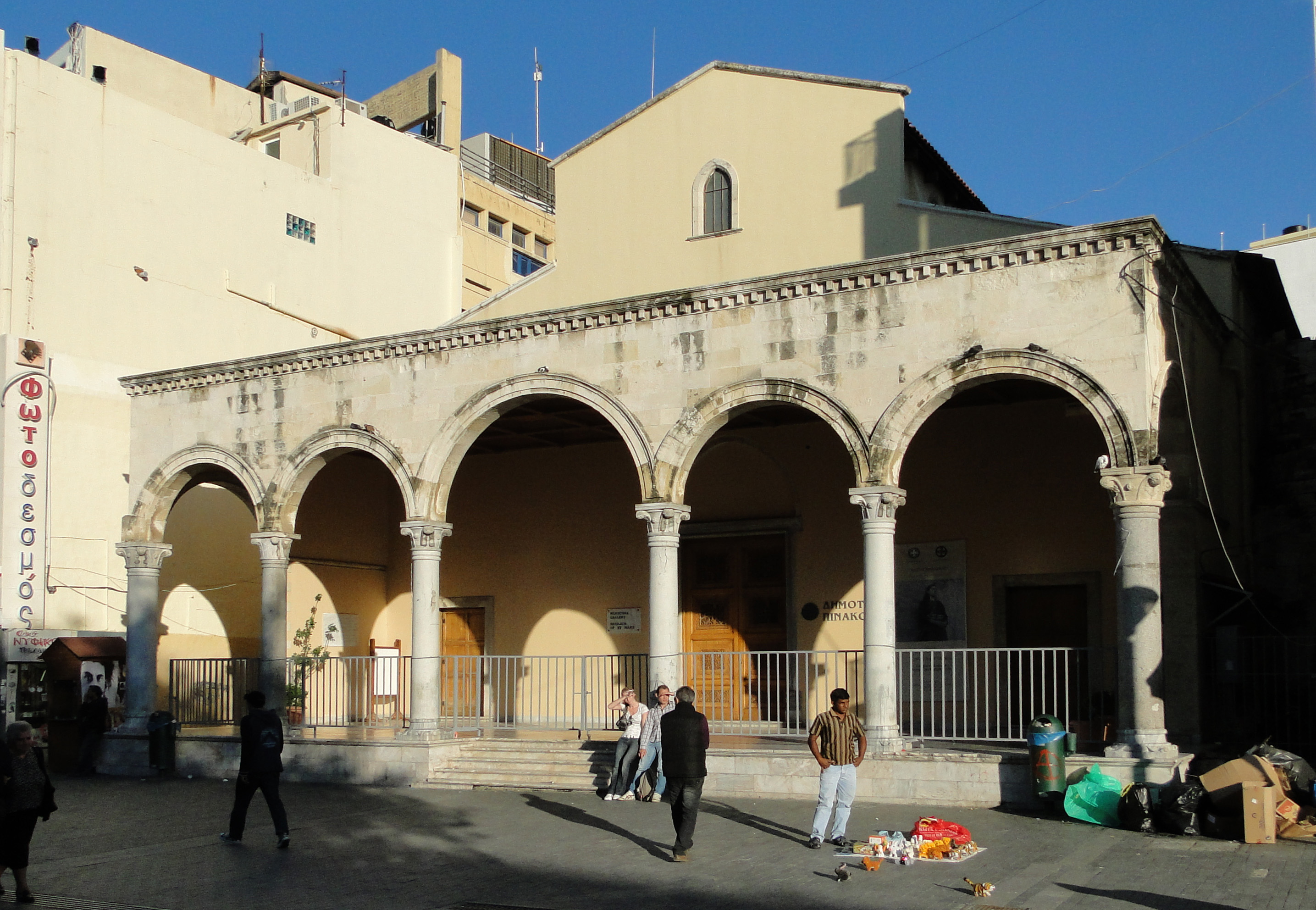 Agios Marcos Basilica, Heraklion, Crete, Greece